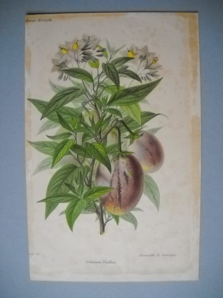 Solanacée